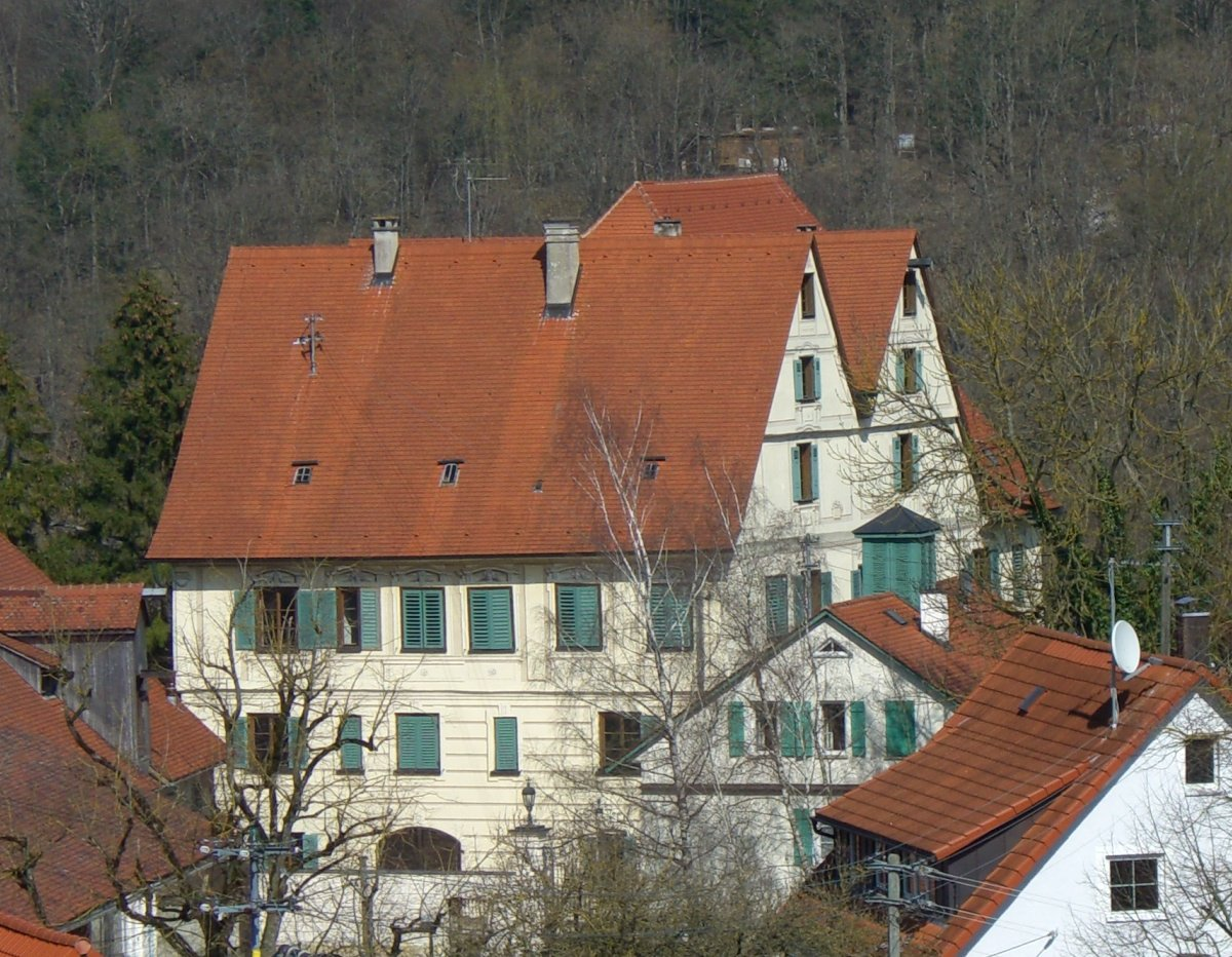 Castle Oberherrlingen, today residential building